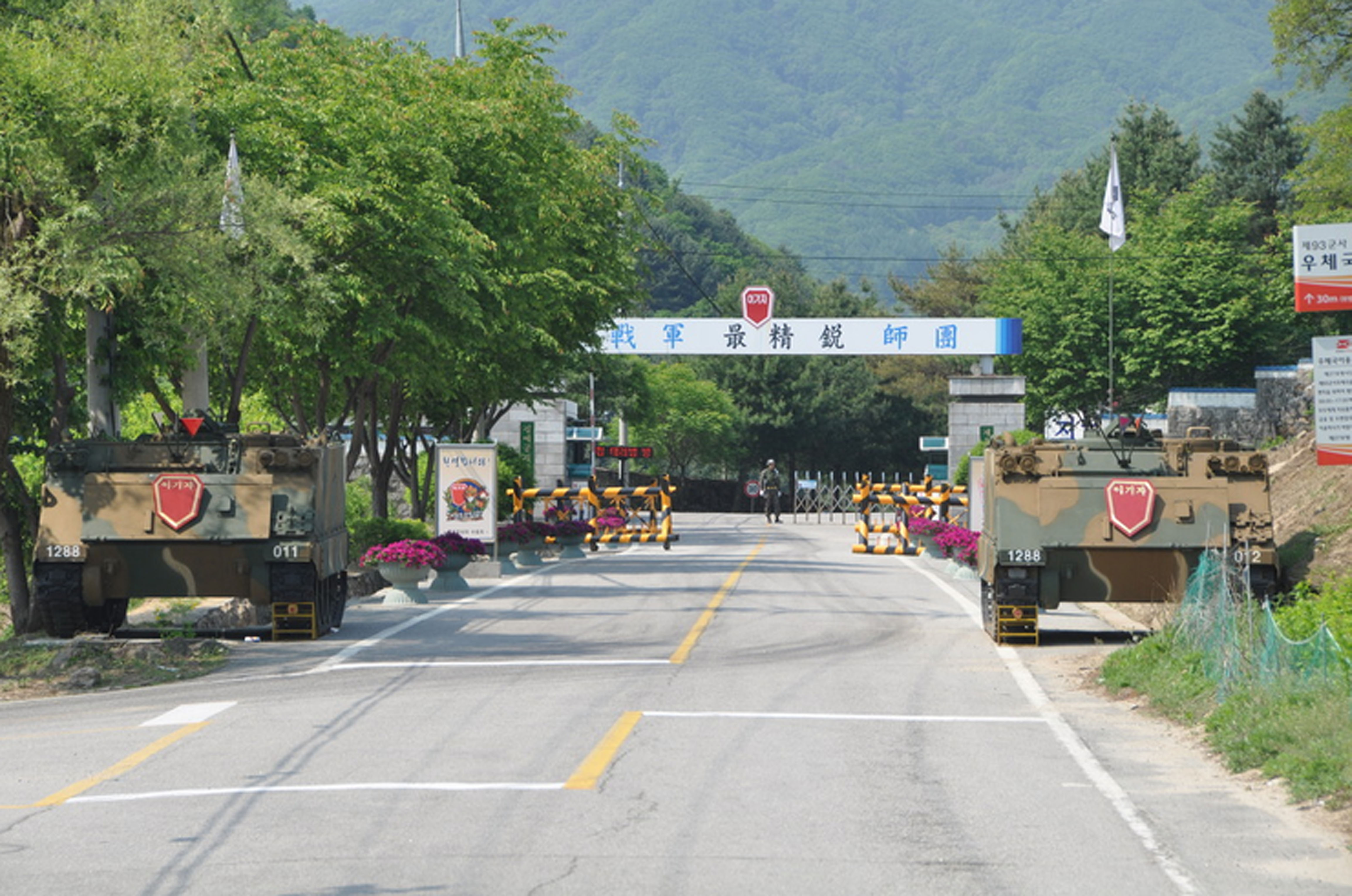 Main gate of Republic of Korea Army 27th Infentry Division Headquarters